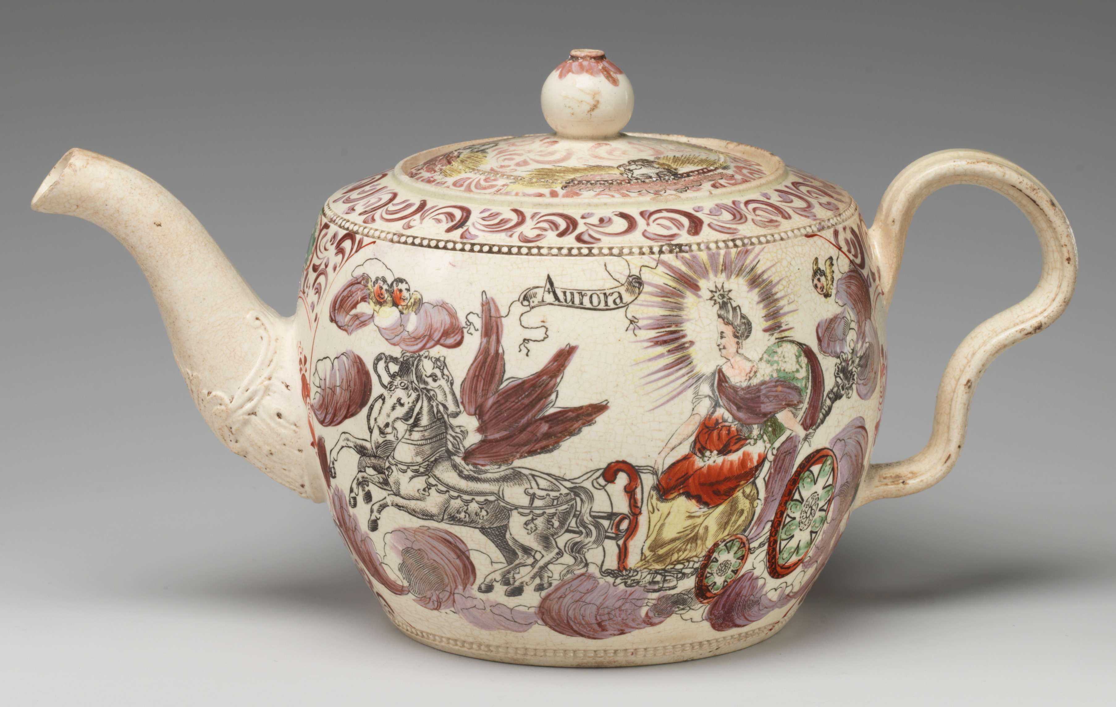 British, Lane Delph, Staffordshire; Teapot; Ceramics-Pottery